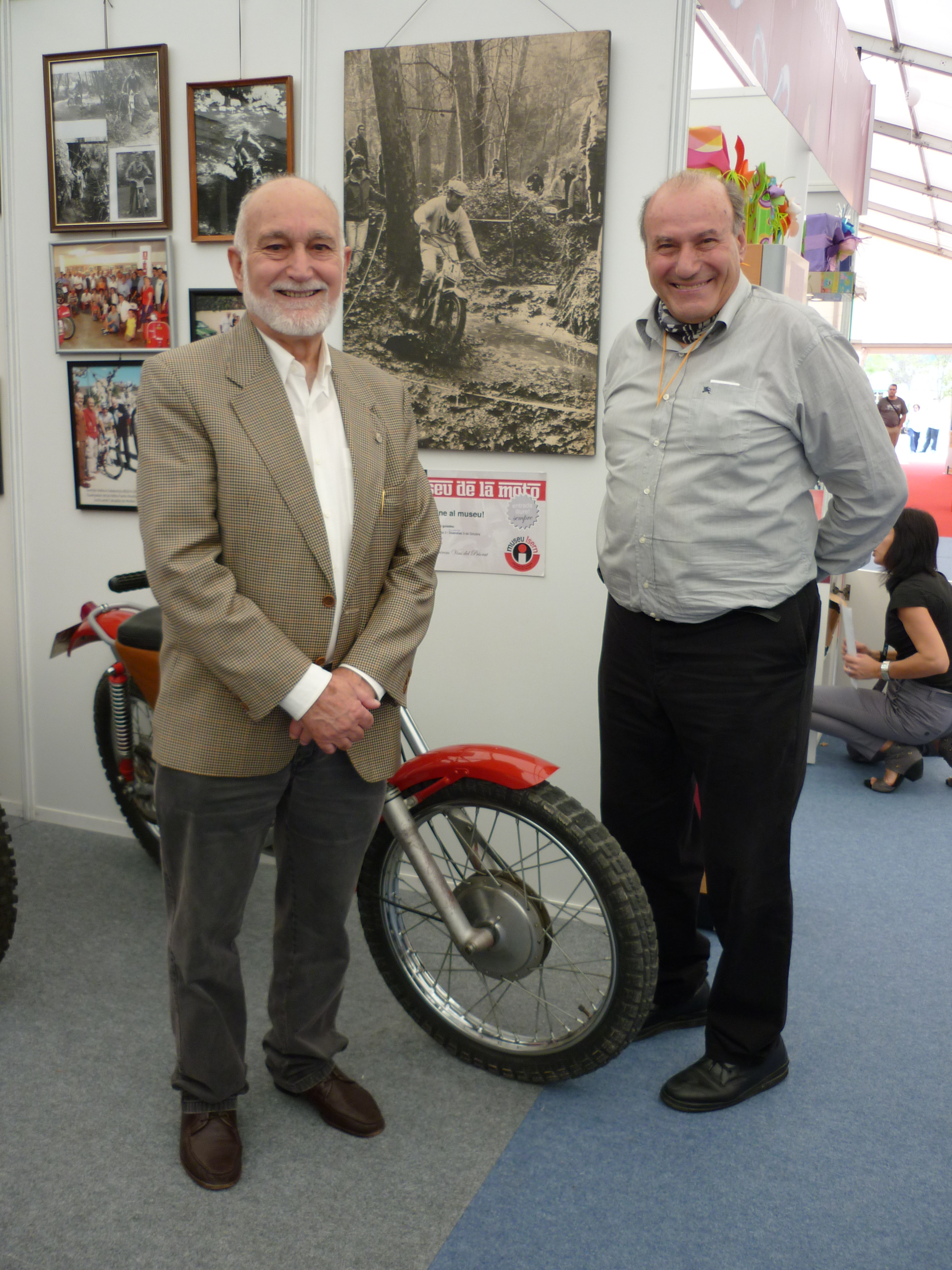 Pere Pi (left) and Josep Isern at Isern's stand at FIMO in Mollet del Vallès (Catalonia), on 2-10-2010, with the Montesa Trial 250 wich Pi rode in 1968, winning the first Spanish Trials Championship.